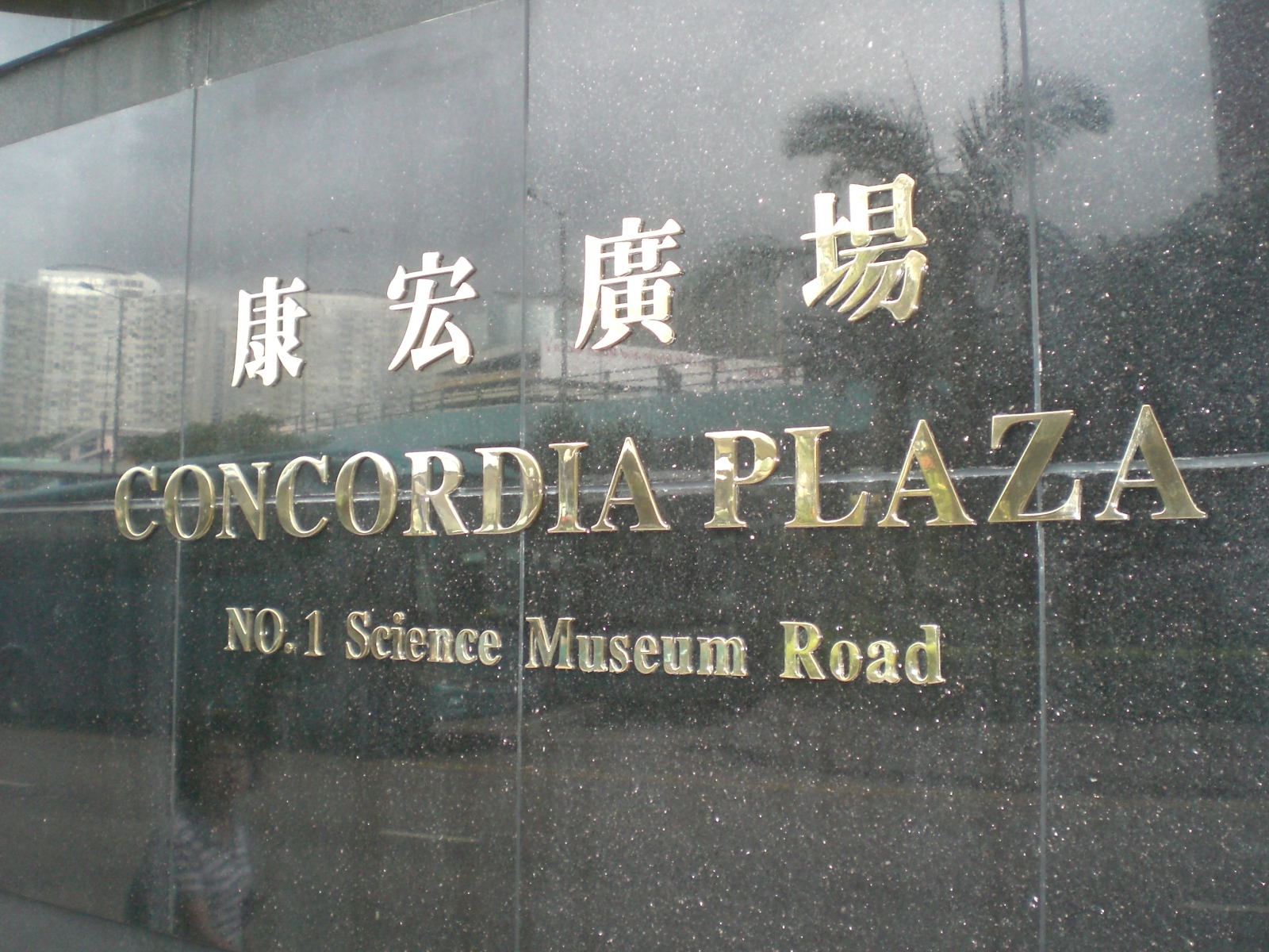 尖東科學館道1號康宏廣場